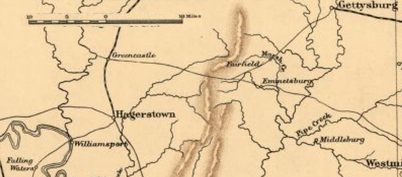 The map shows the area around Gettysburg and Williamsport during the American Civil War. Confederate General Robert E. Lee's army escaped from Gettysburg and crossed the Potomac River at Williamsport during July 1863.